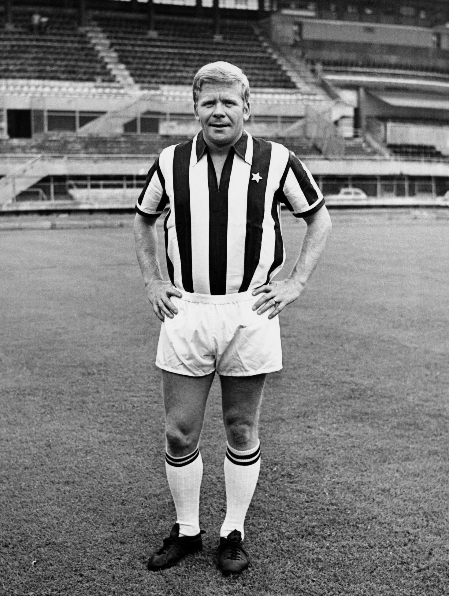 West German footballer Helmut Haller with Juventus F.C. in the late 1960s, posing inside the Communal Stadium in Turin.